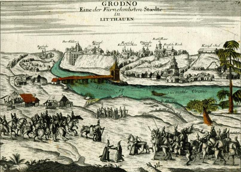 View of Hrodna.